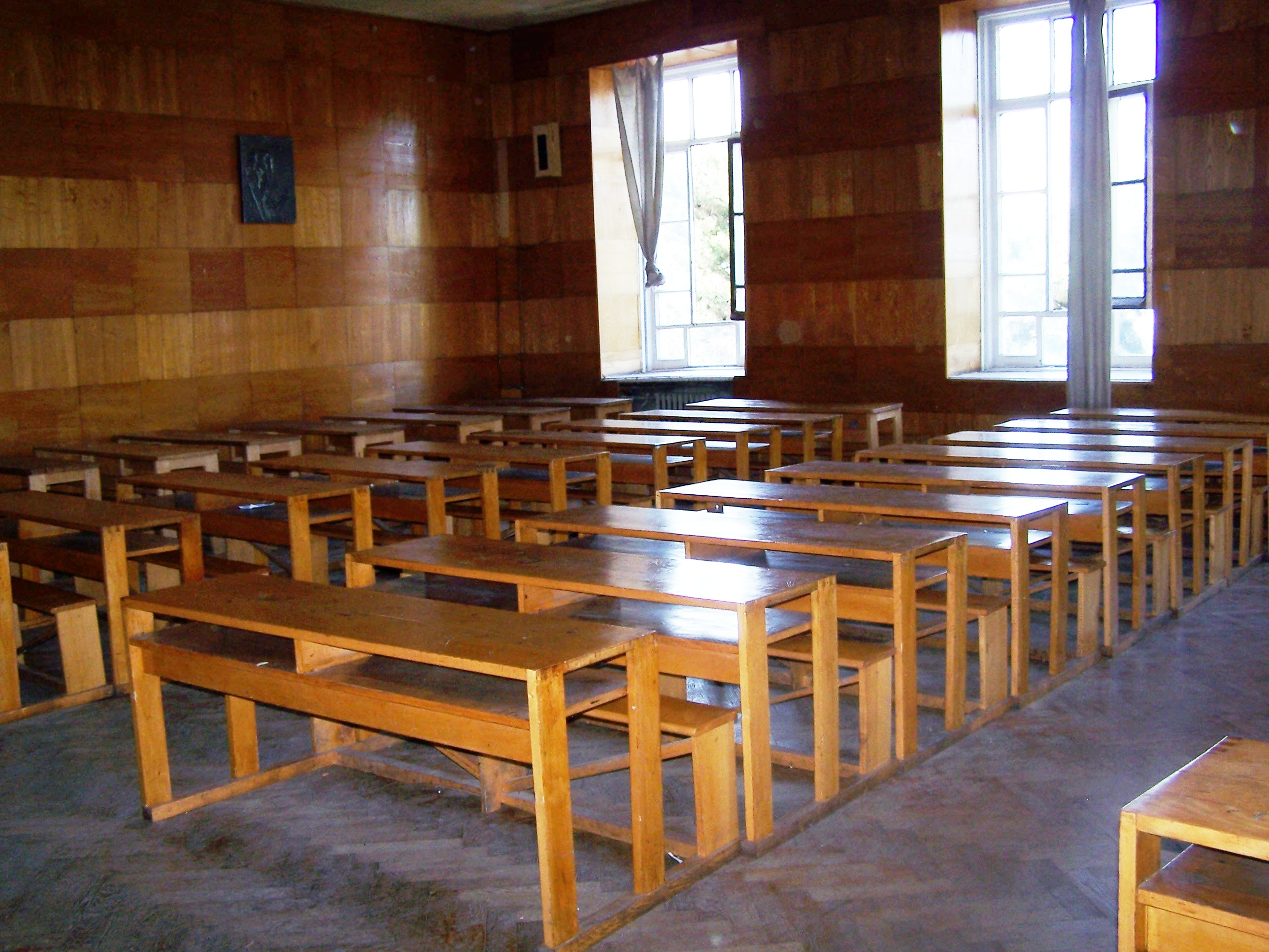 In Tbilisi State University.